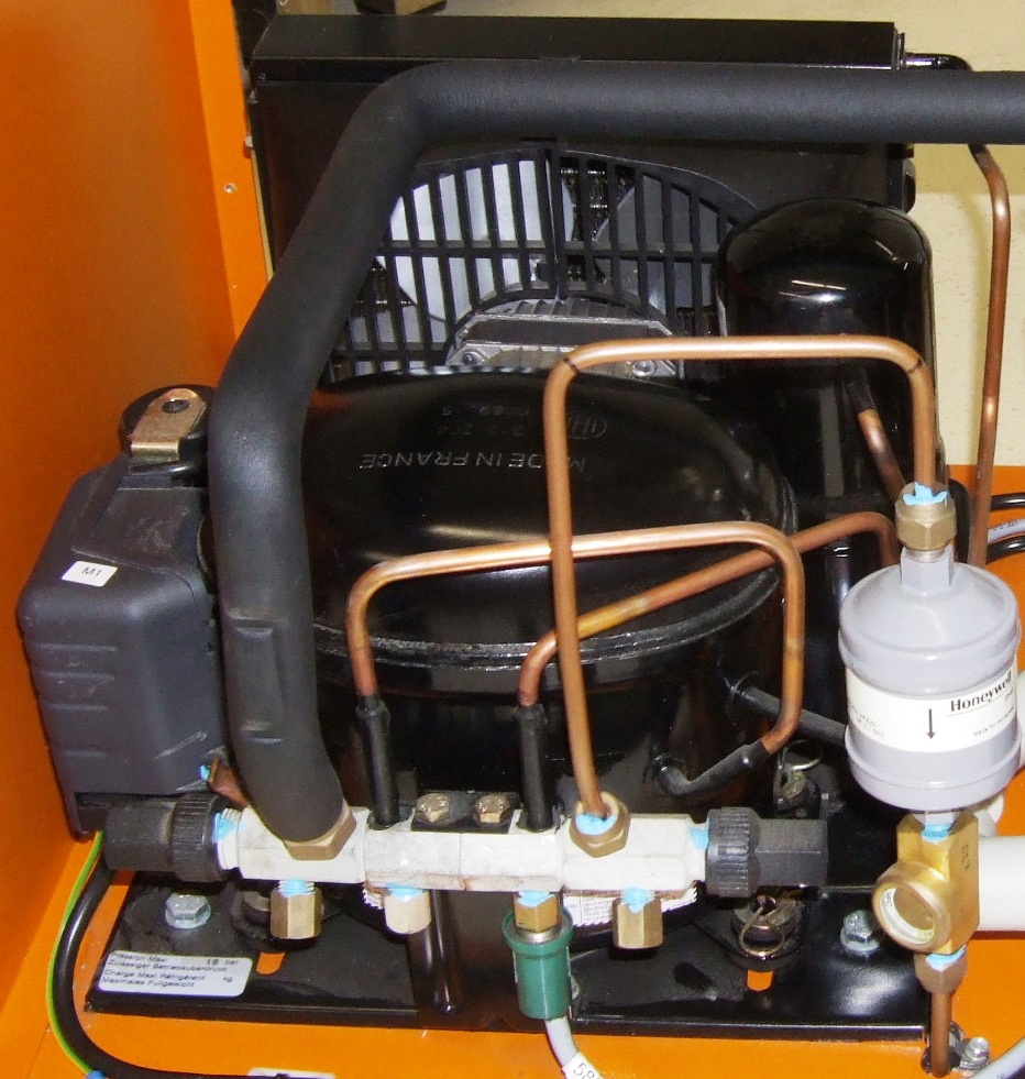 Example of a smaller refrigeration condensing unit, consisting of a compressor (black oval object near the centre), the compressor start-up circuitry (grey box on the left), a condenser with fan (in the back), a refrigerant tank (black cylinder), a filter-drier (light grey, on the right), refrigerant manifold, sensors, etc.